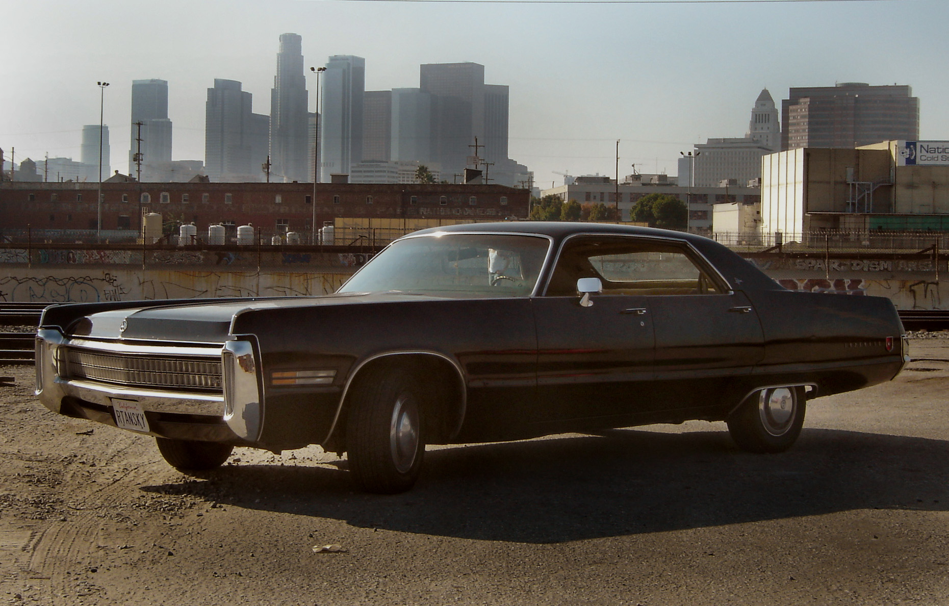 1972 Imperial Le Baron, Los Angeles, CA